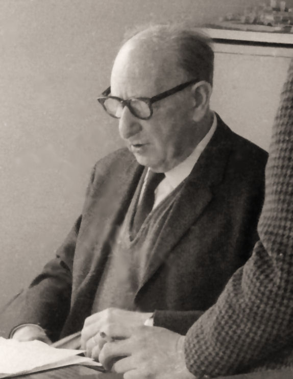 1962-1967 At Hammersmith collage of Art and building (London)